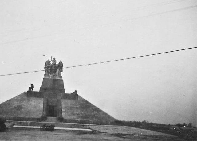 Date Ferme de Navarino by German soldiers in May 1940 while driving past during the advance of German troops.